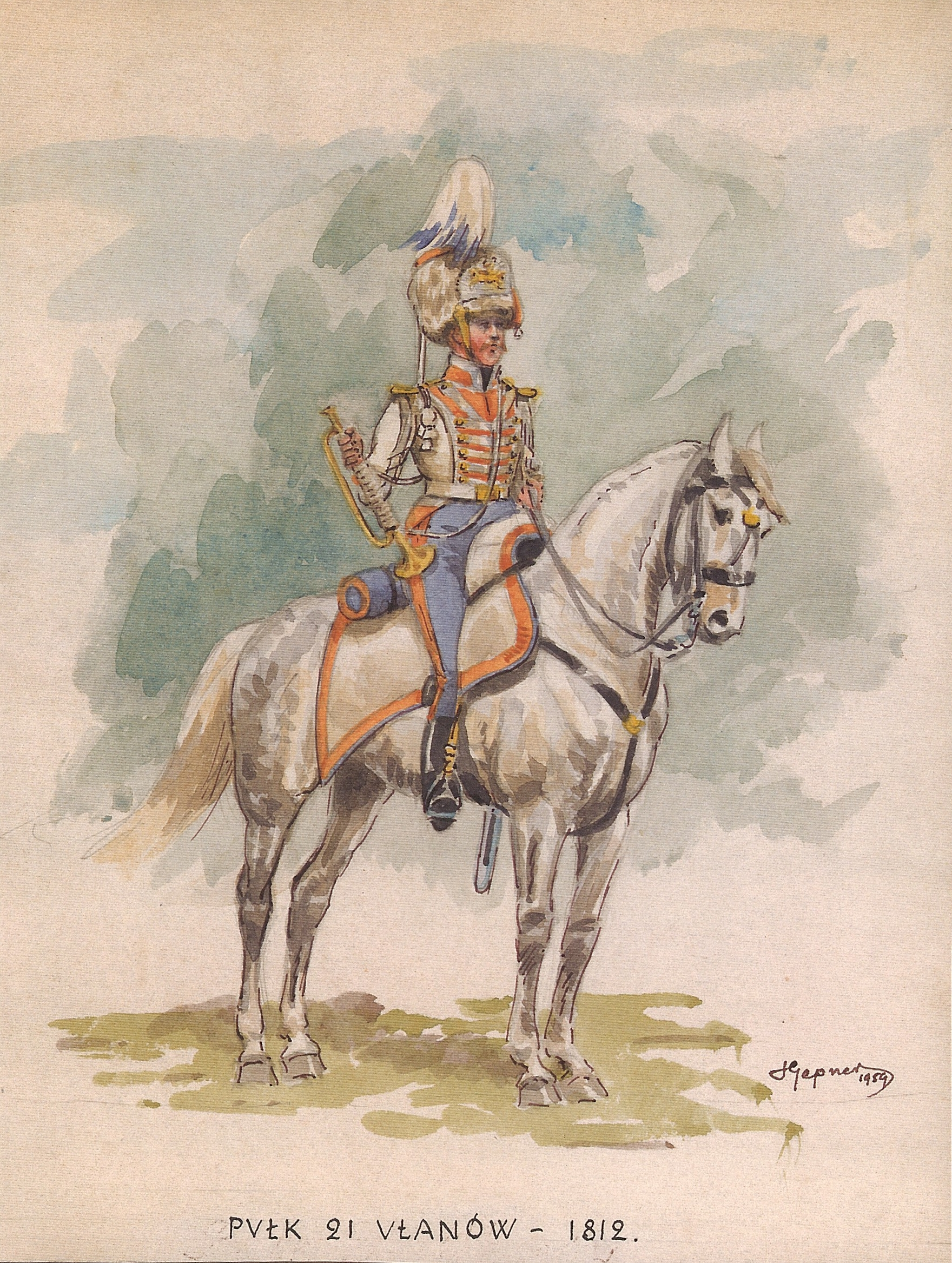 Uhlan of the 21 Uhlan's Regiment, around 1812.